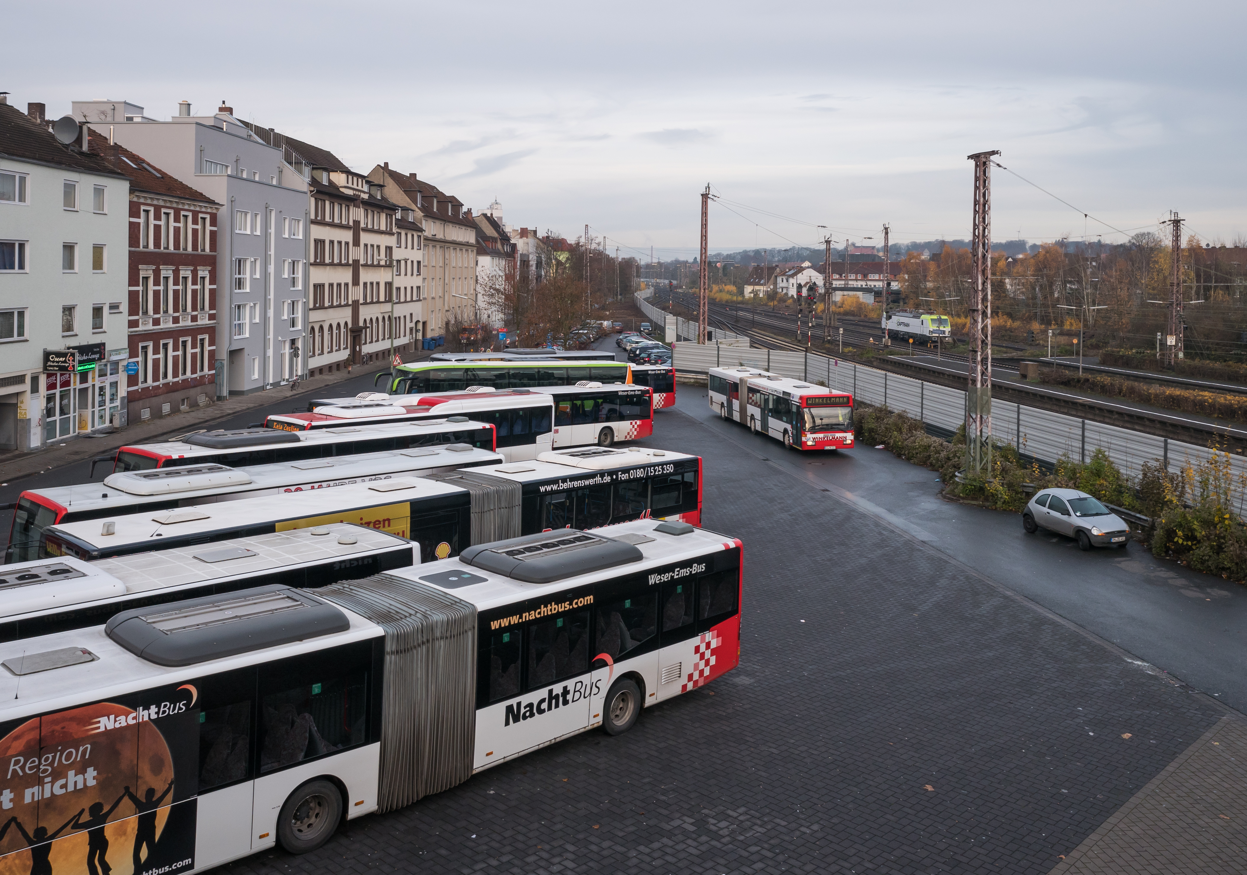 Bus station in the Eisenbahnstraße, near the Osnabrück central station.